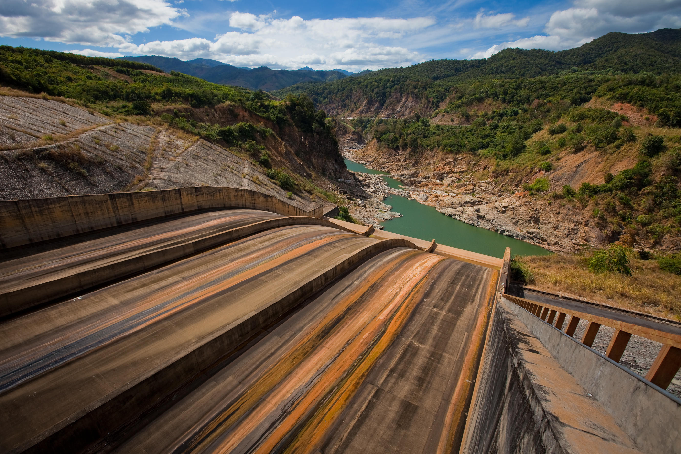 Ya Ly Dam spillway, Vietnam